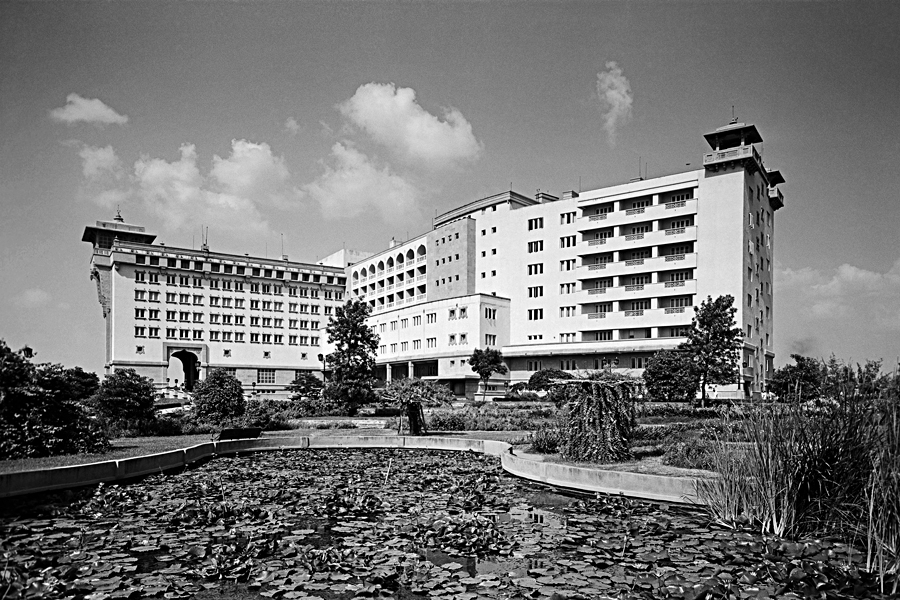 Ashoka Hotel, Delhi photographed by Madan Mahatta, c. 1957